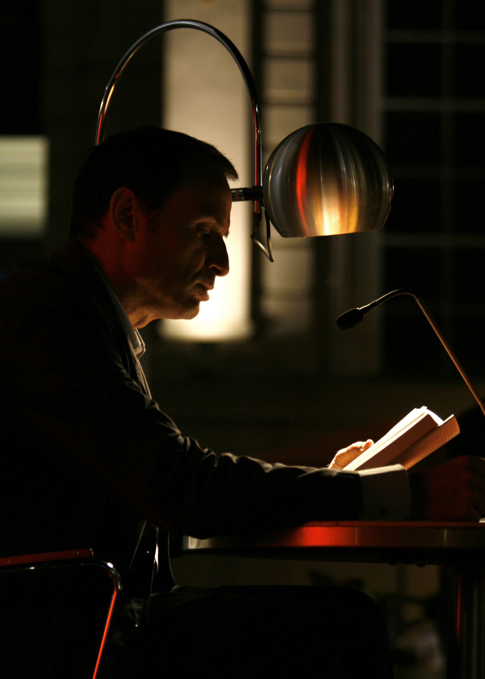 Austrian writer Norbert Gstrein; reading at the literary festival O-Töne 2008 at the MuseumsQuartier in Vienna, Austria.